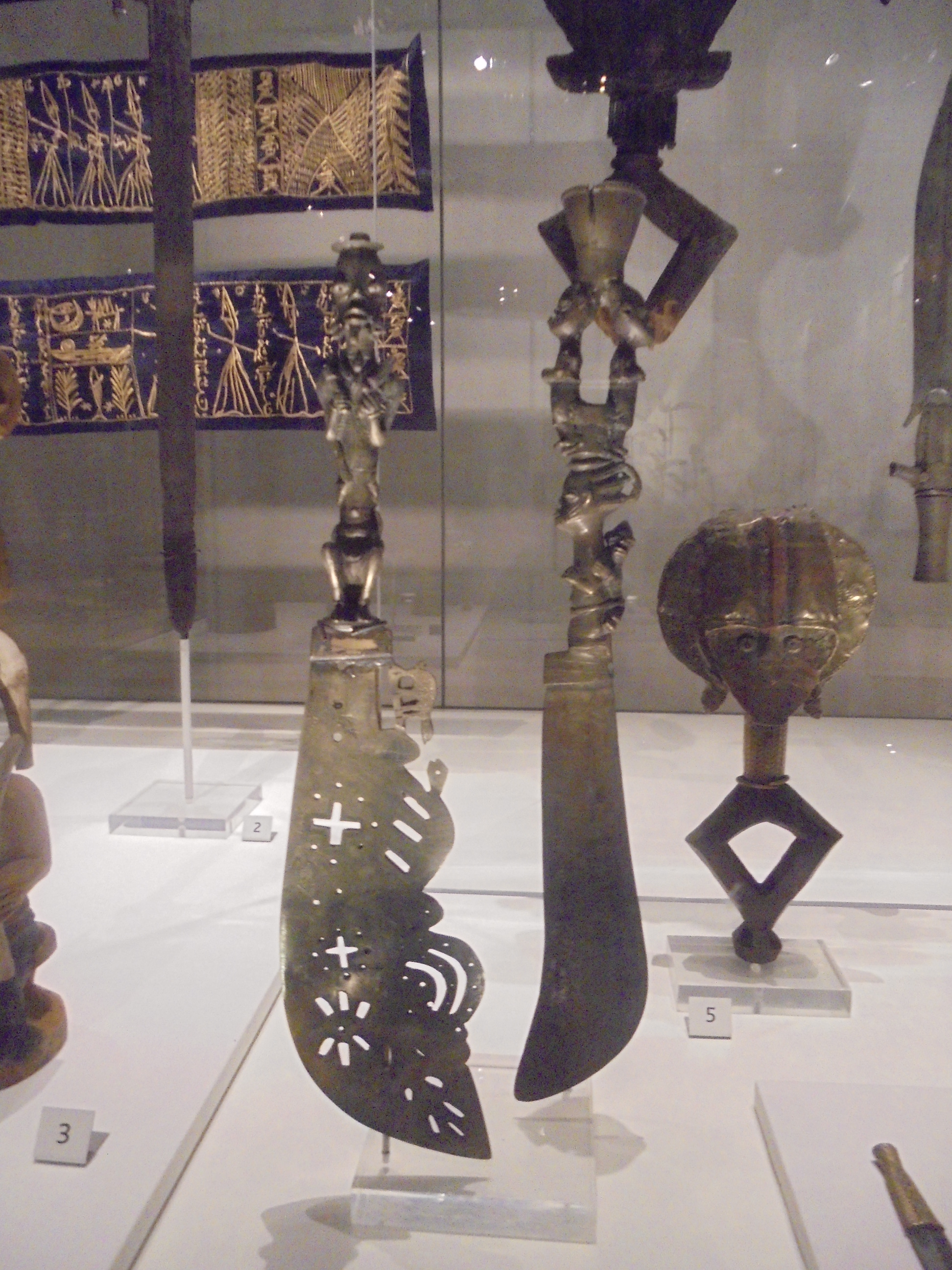 Two cutlasses for the Cult of Ogun